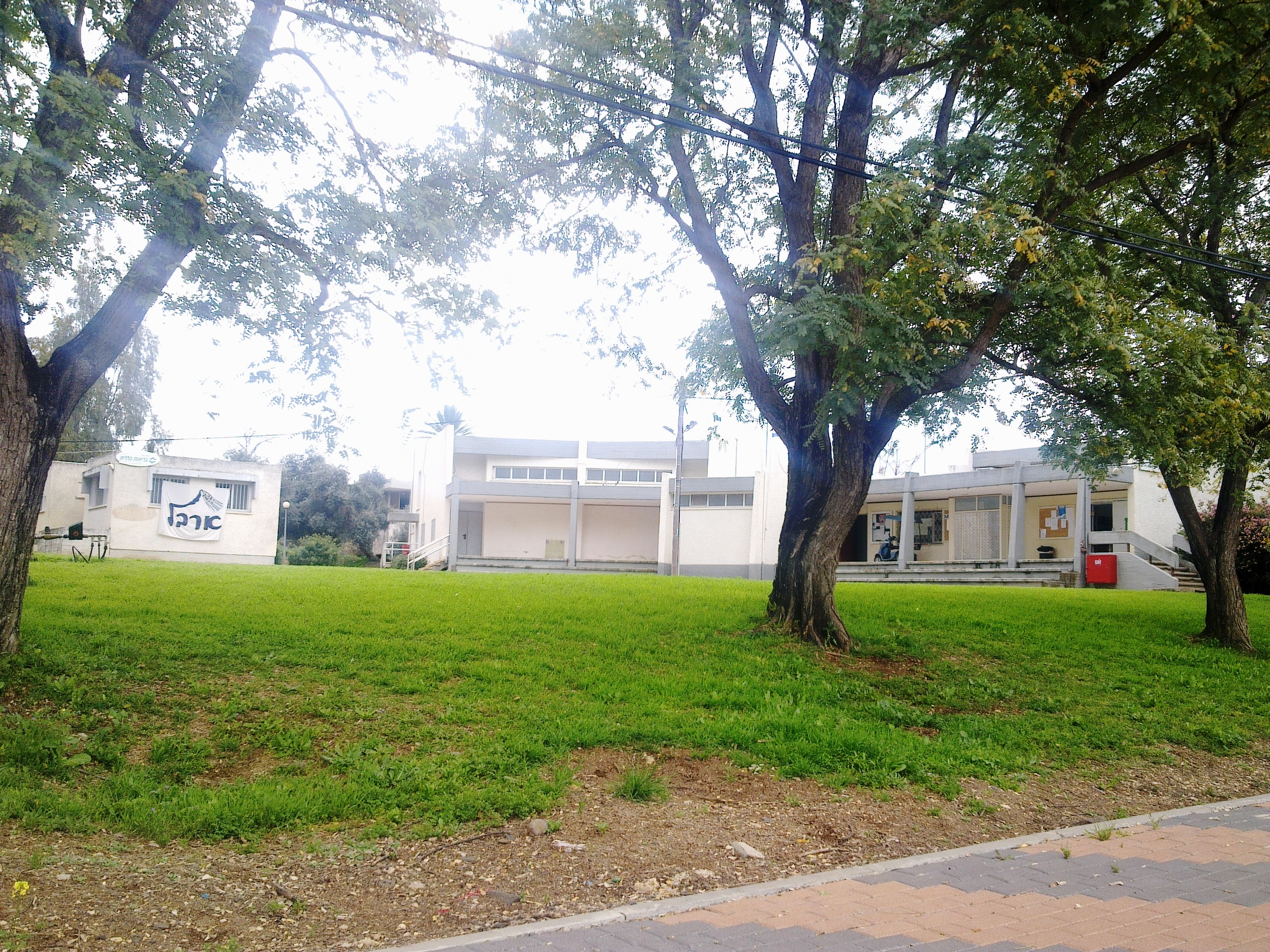 public buildings in Moshav Arbel מבני ציבור במושב ארבל